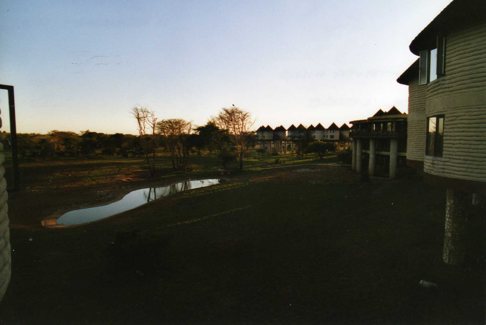 Taita Hills, Kenya Located in the heart of the Taita Hills Wildlife Sanctuary that borders Tsavo West off Voi town, Sarova Salt Lick Game Lodge is a truly unique concept consisting of 96 rooms elevated on stilts, each overlooking a waterhole and linked by suspended walkways. The lodge is among the various Voi lodges and Tsavo West lodges where one gets to see the Tsavo elephant and enjoy a Kenyan safari. At night, the waterhole are floodlit ensuring that guests enjoy an uninterrupted view of the daily procession of thirsty wildlife that comes to water at the waterhole.